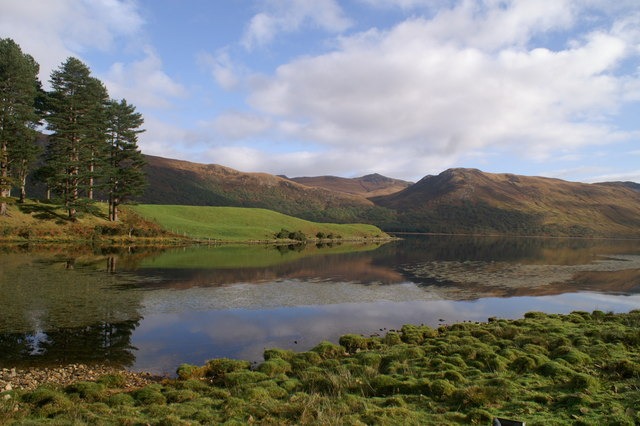 Benmore Headland, Loch Ba